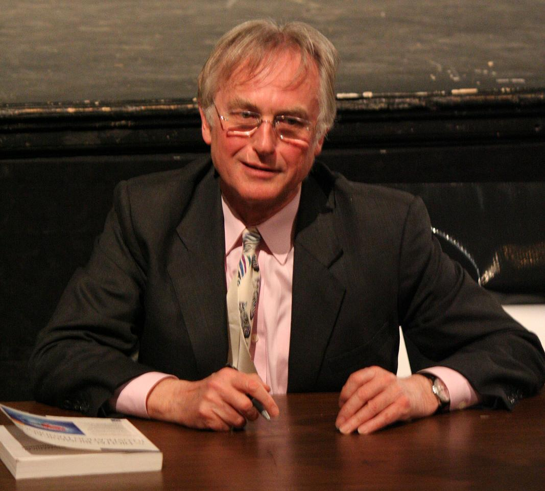 Dawkins at the University of Texas at Austin.